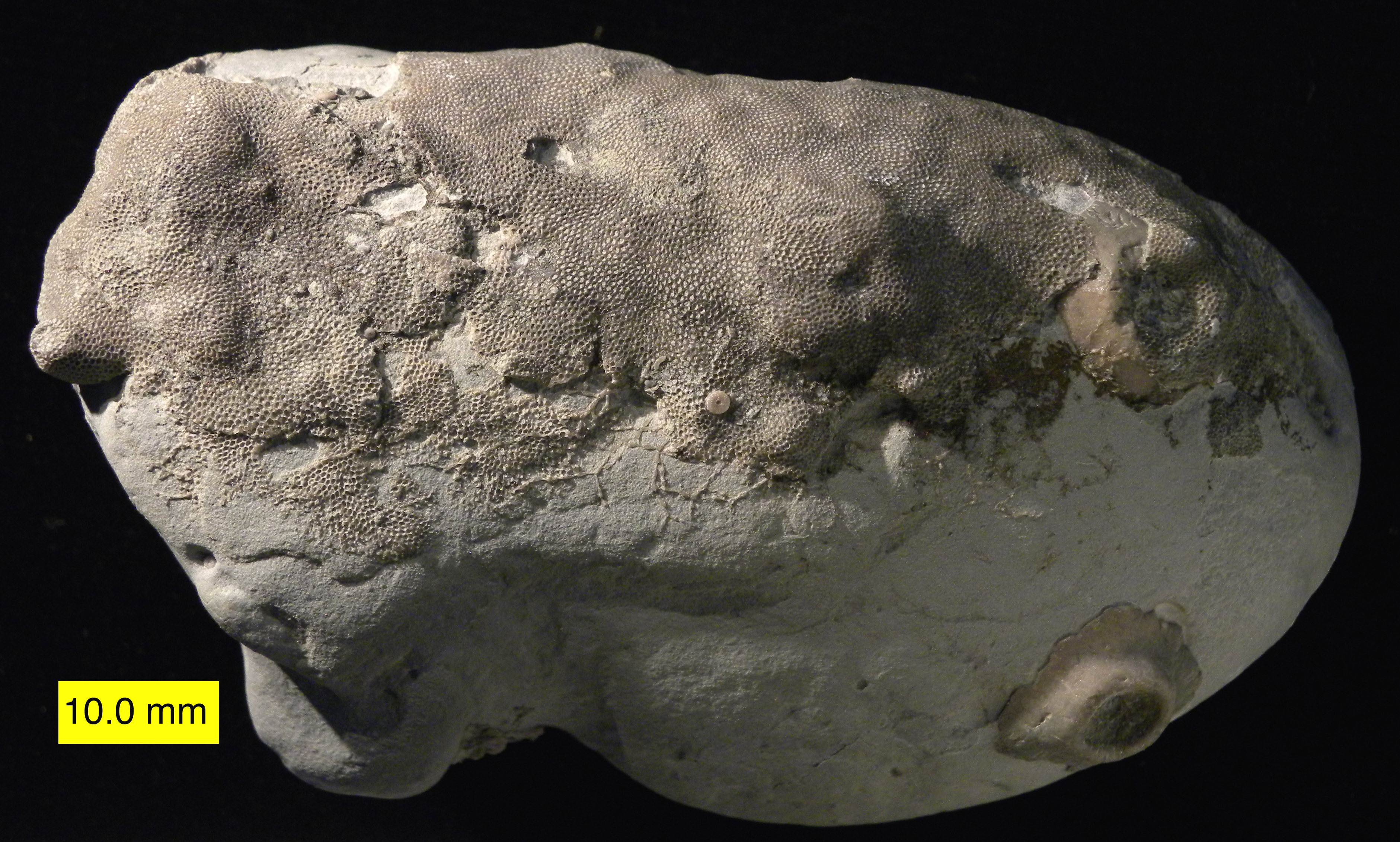 Encrusted hiatus concretion from the Kope Formation (Upper Ordovician) of Covington, Kentucky. Encrusters include bryozoans and crinoids.